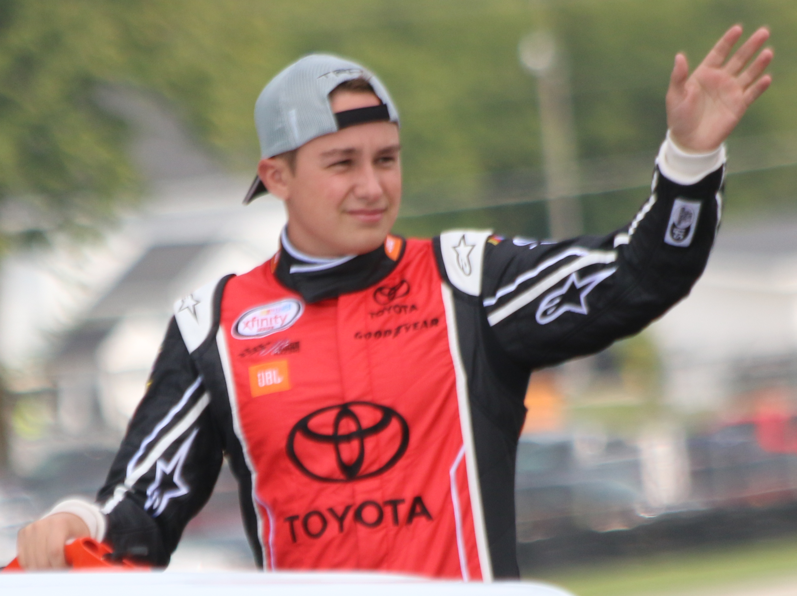 NASCAR driver Christopher Bell during the driver's introductions lap at the 2017 Johnsonville 180 race in the Xfinity Series race at Road America.